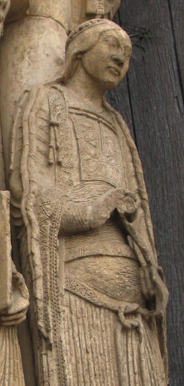 Sculptures on the exterior of the Cathedral of Notre-Dame de Chartres. Detail of woman wearing a bliaut gironé and a knotted ceinture or cincture (belt, girdle) 1130-1160. Coomentary on this costume in Janet Snyder, "From Content to Form: Court Clothing in Mid-Twelfth-Century Northern French Sculpture", in Désirée Koslin and Janet E. Snyder, eds.: Encountering Medieval Textiles and Dress: Objects, texts, and Images, Macmillan, 2002, ISBN 0-3122-9377-1, p. 89-90.